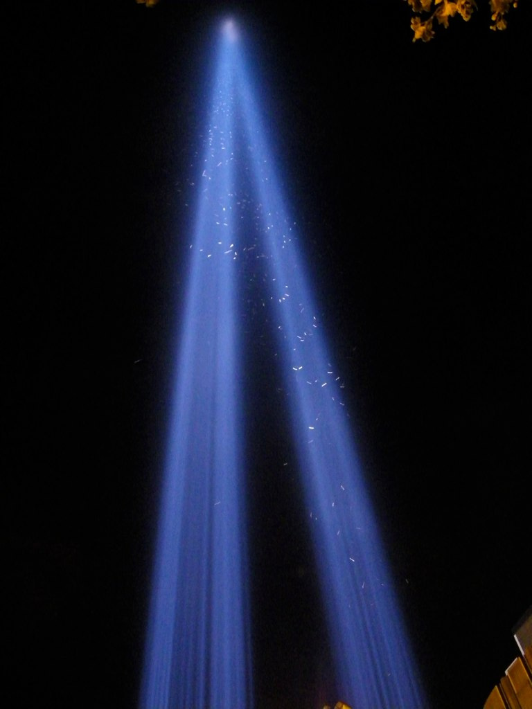 Migratory birds temporarily stuck in the World Trade Center Memorial Lights